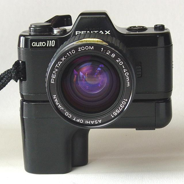 Author: Paul M. Provencher; Source: Author Created Image; URL